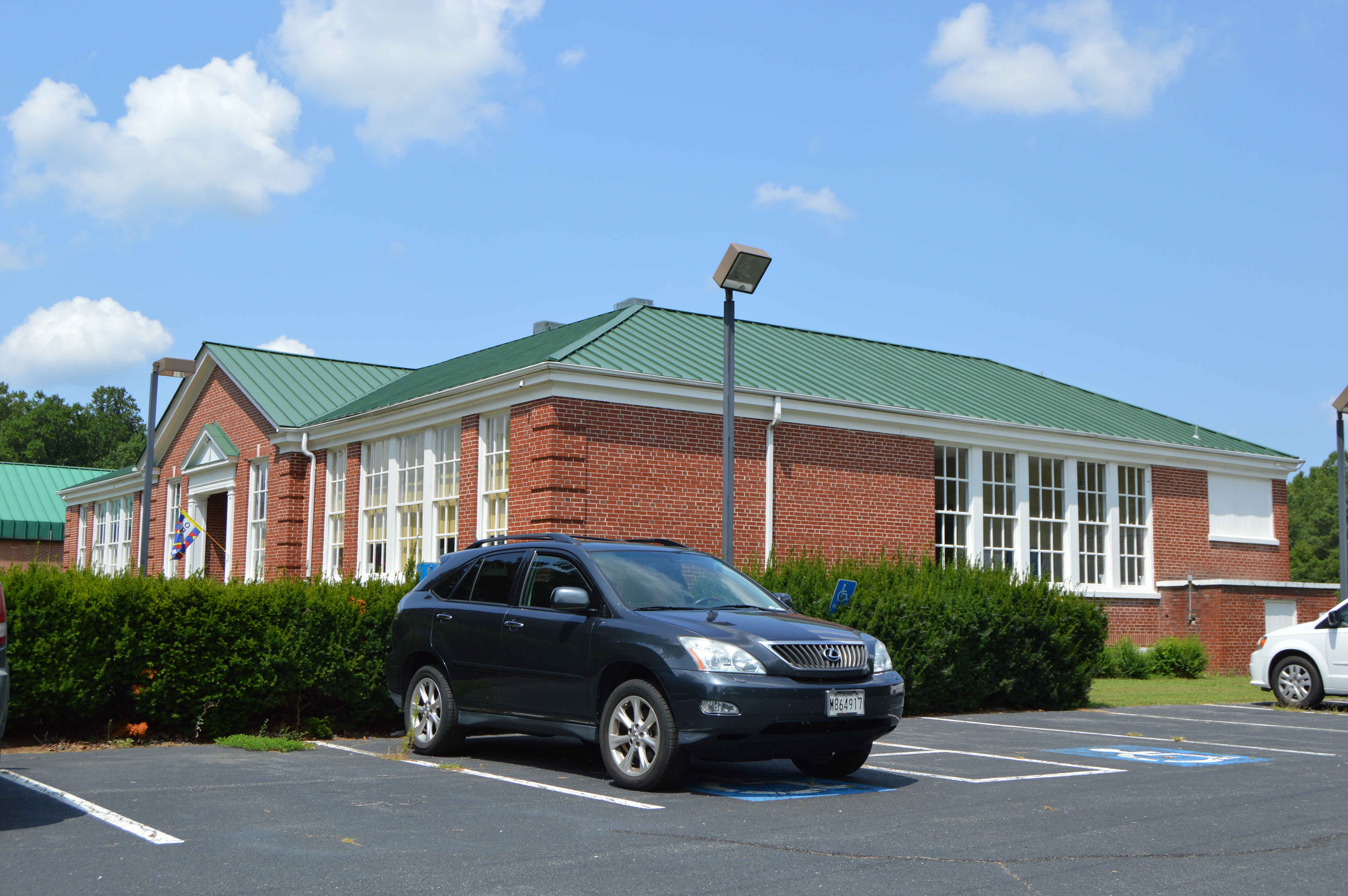 Through-the-trees view of the Armstead T. Johnson High School, located on State Route 3 at Templeman in Westmoreland County, Virginia, United States. Built in 1937, it is listed on the National Register of Historic Places.